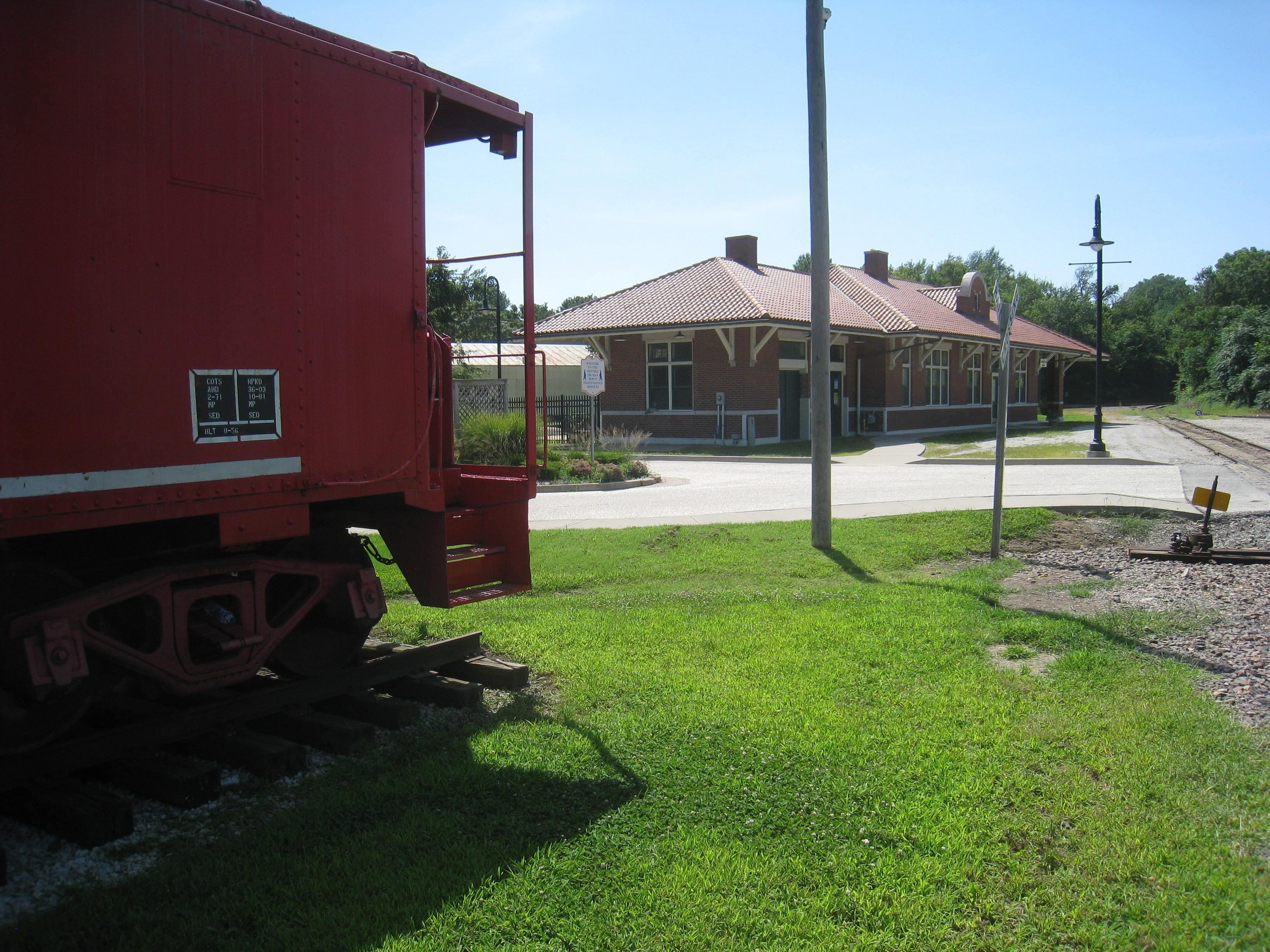 View facing west-southwest, of the "Missouri_Pacific_Depot_at_Independence" also known as the "Independence_(Amtrak_station)", and, as on the sign near the center of the photograph, "The Historic Truman Depot, Independence, Missouri". The red "Caboose" partly visible to the left is a permanent part of the tourist-friendly site.